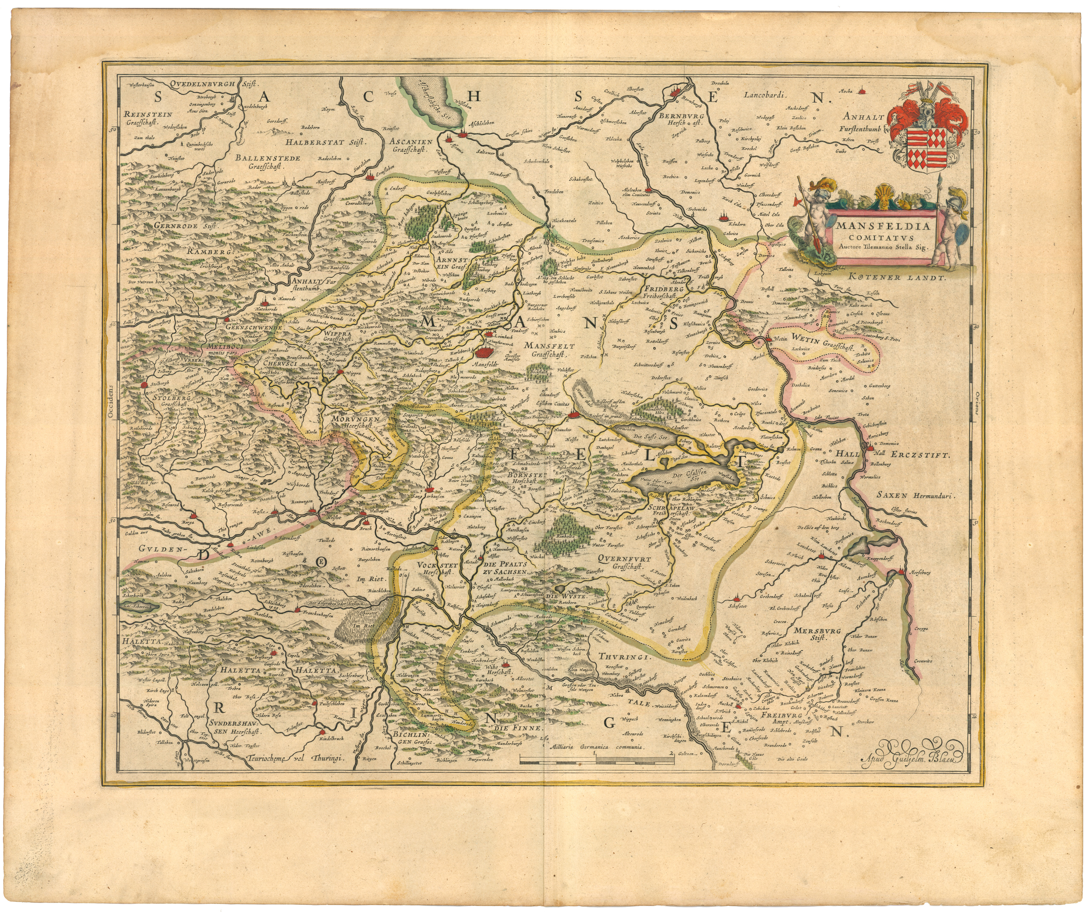 Theater of the World or a New Atlas of Maps and Representations of All Regions. 1645